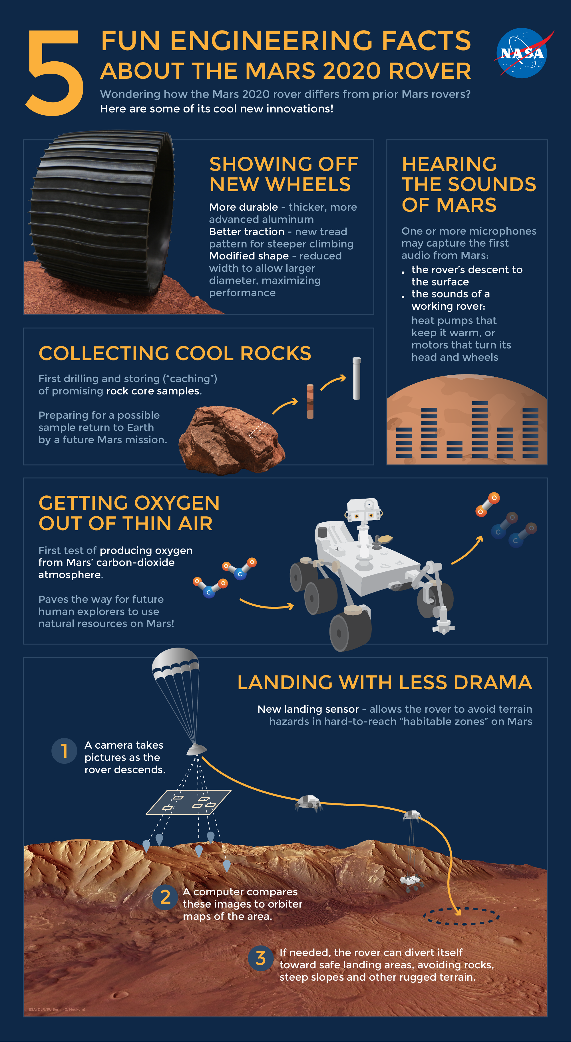 Infographic from JPL (Jet Propulsion Laboratory) about mars 2020 rover mission